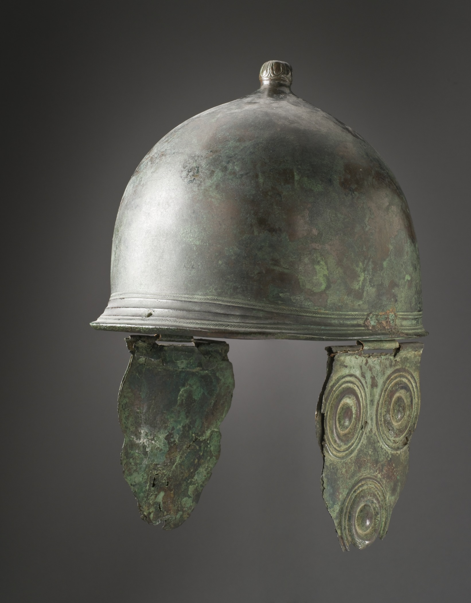 Italy, Etruscan, 3rd century B.C. Arms and Armor; armor Bronze William Randolph Hearst Collection (50.37.19) Greek, Roman and Etruscan Art Currently on public view: Hammer Building, floor 3